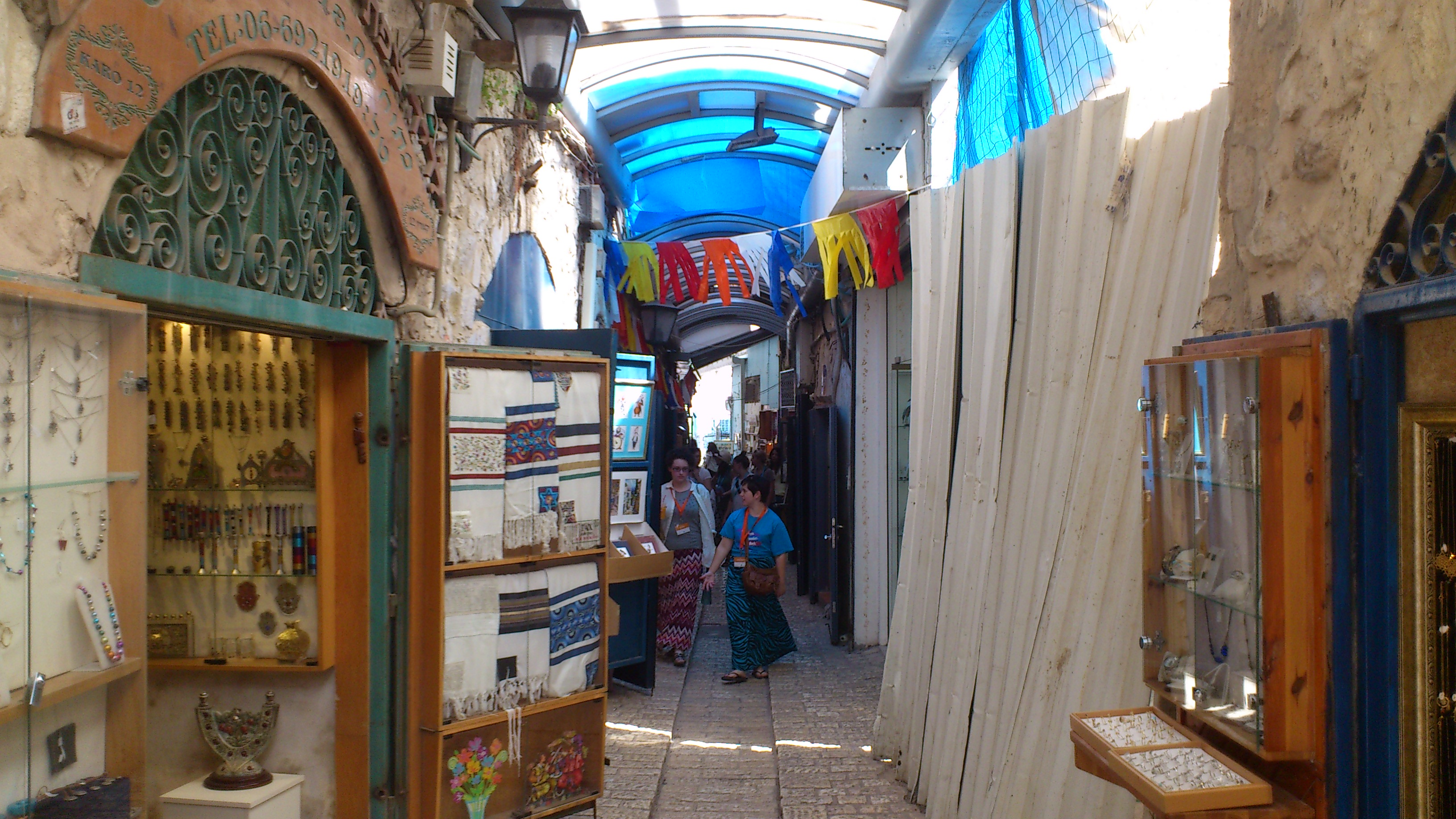 Old city, Safed